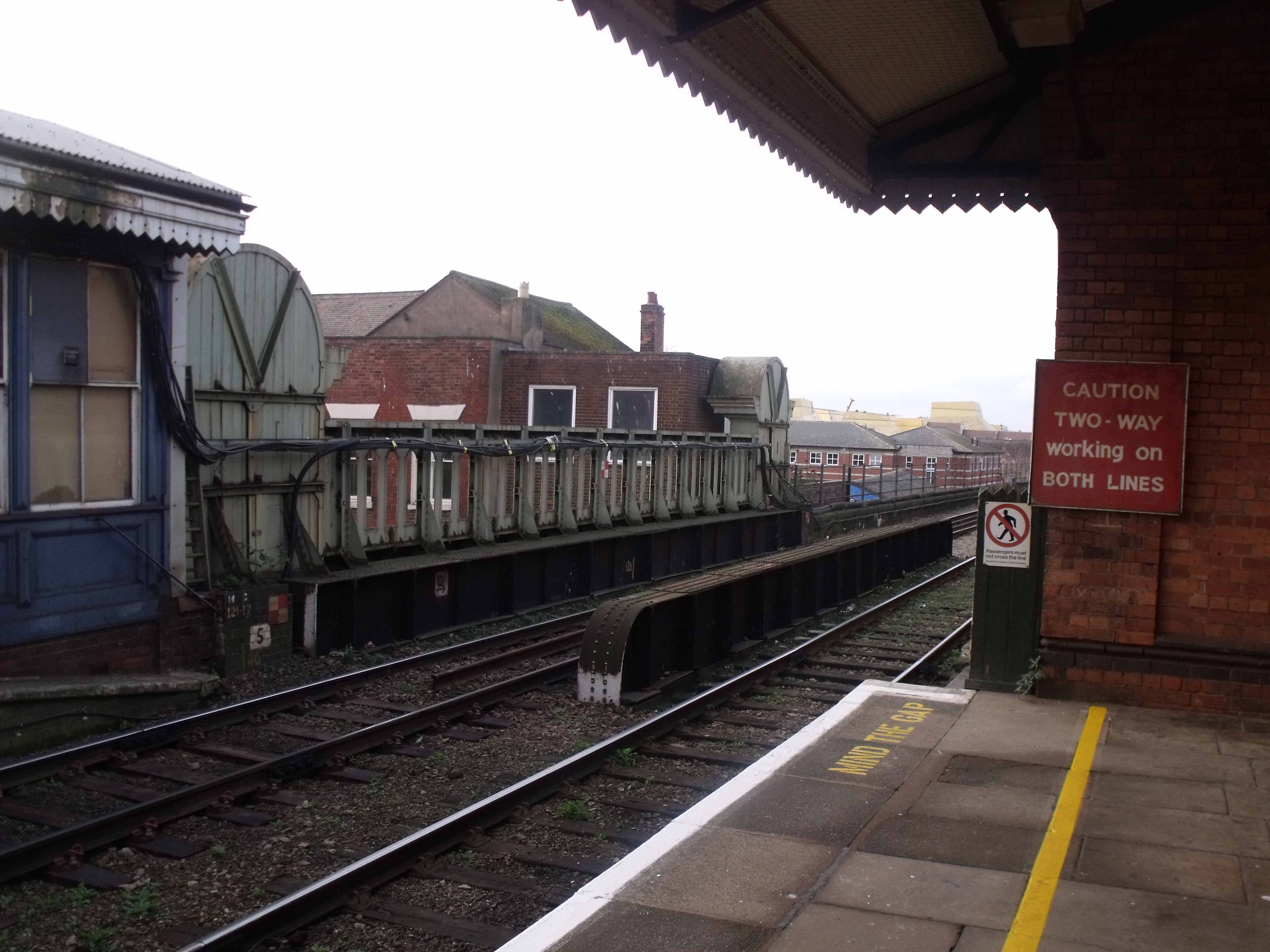 Sign at Worcester Foregate Street warning of two-way working on both lines. The structure with the blanked-off window, on the extreme left of the image, is the former signalbox.